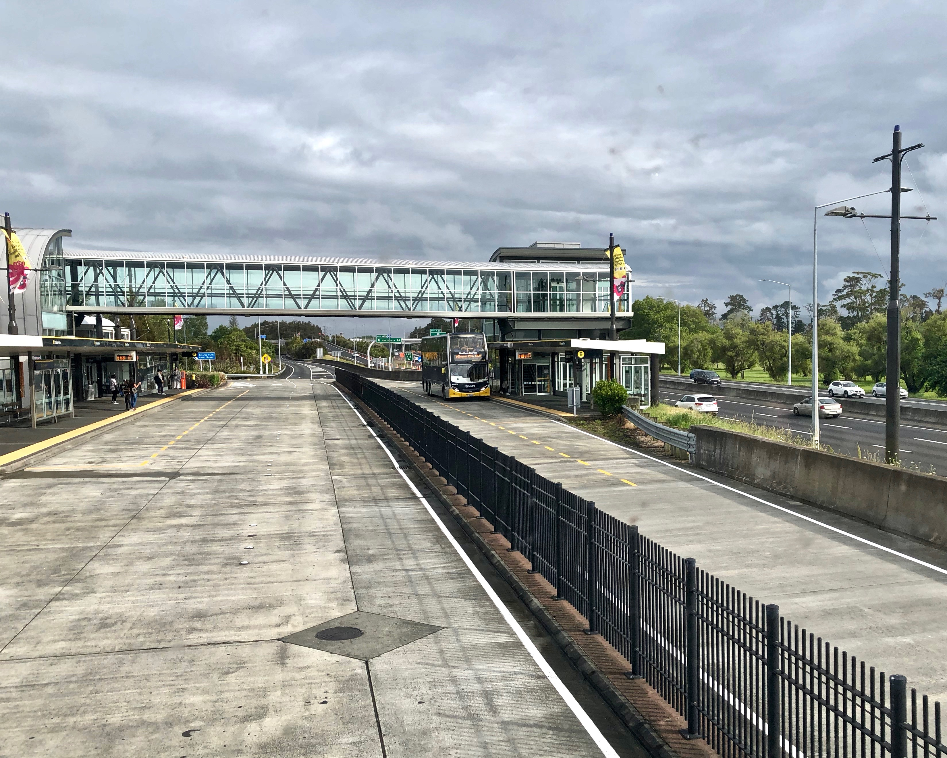 Smales Farm bus station and motorway